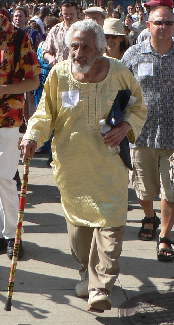 Halim El-Dabh leads 1000 drummers, ingenuity cleveland festival